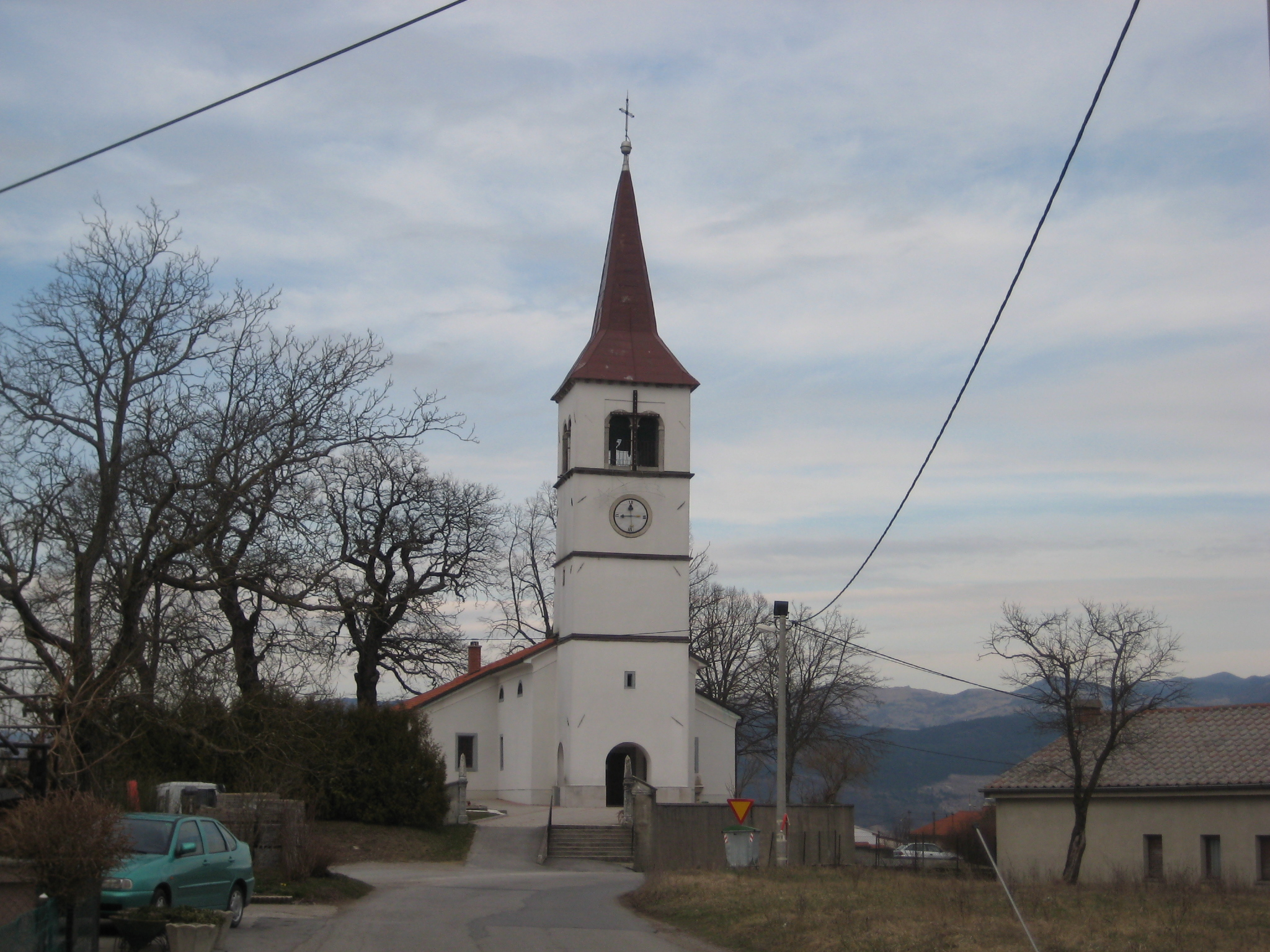 Church in Harije, Brkini, Slovenia.